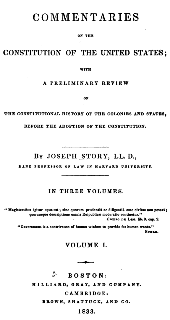 Title page of Joseph Story (1833) Commentaries on the Constitution of the United States; with a Preliminary Review of the Constitutional History of the Colonies and States, before the Adoption of the Constitution. By Joseph Story, LL.D. Dane Professor of Law in Harvard University. In Three Volumes, Boston; Cambridge, Mass.: Hilliard, Gray, and Company; Brown, Shattuck, and Co. OCLC: 3826953.